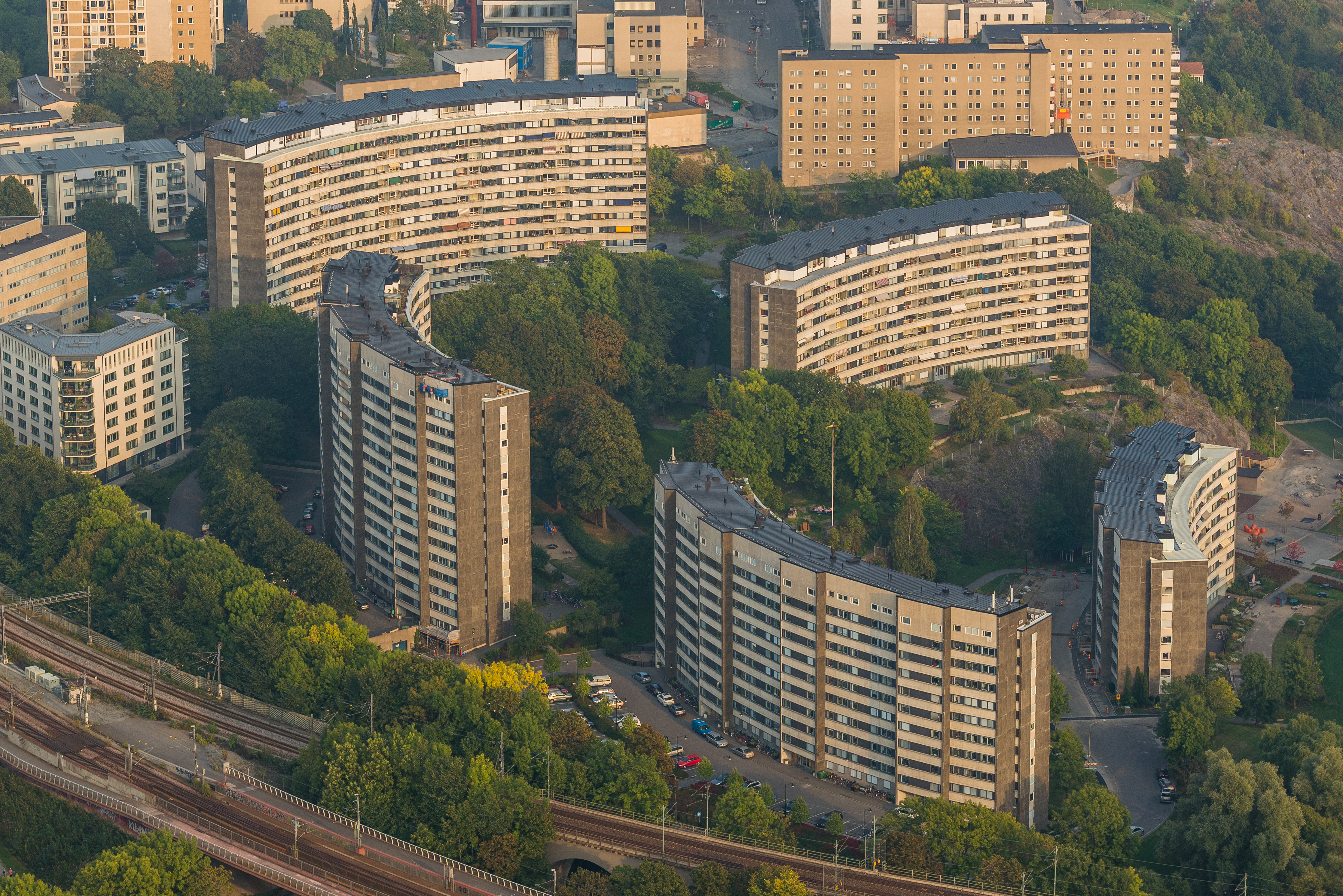 Apartment buildings from 1965 in the city block Sockerbruket in Södermalm, Stockholm.